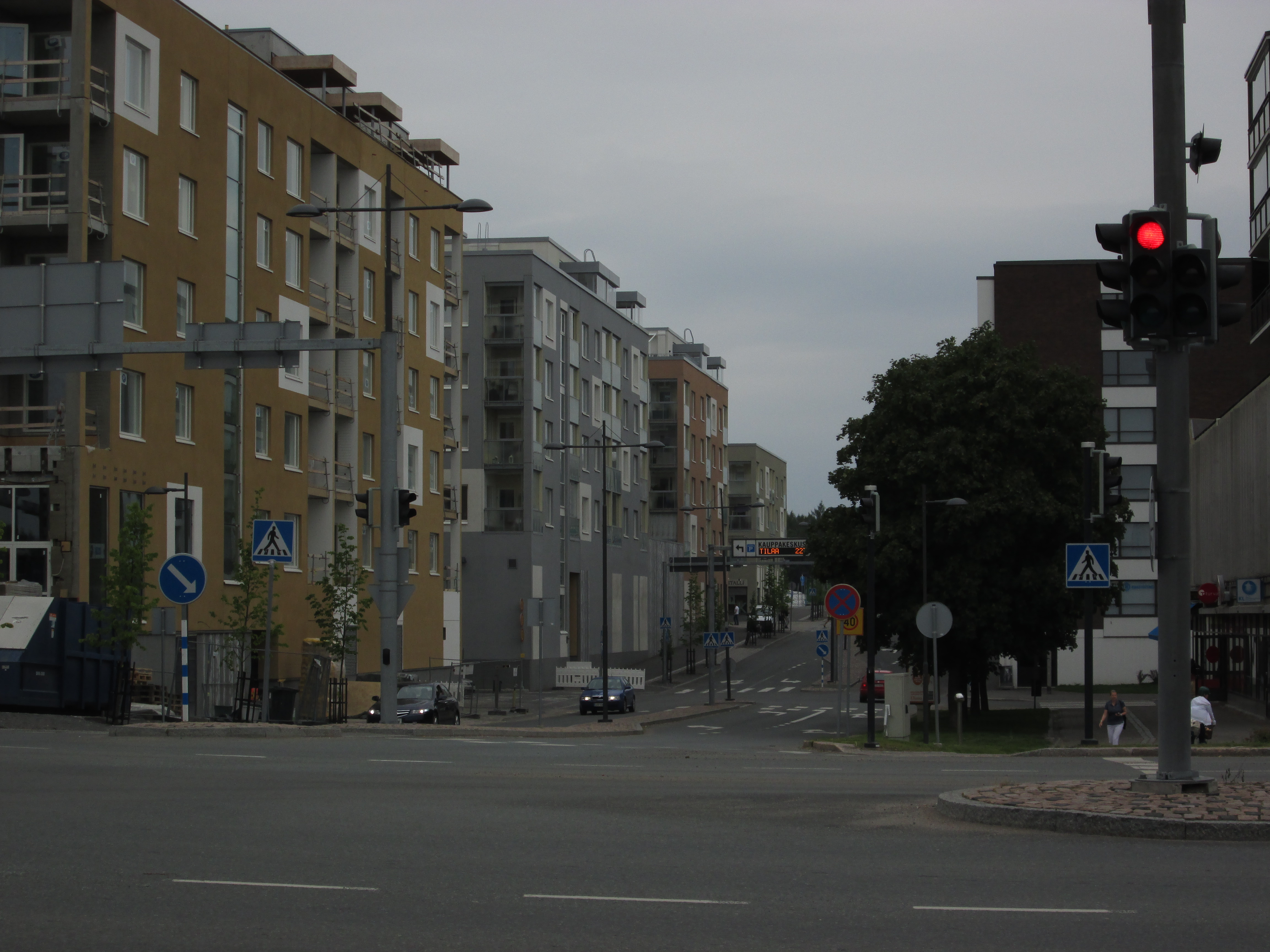 Kaivokatu street, Hämeenlinna